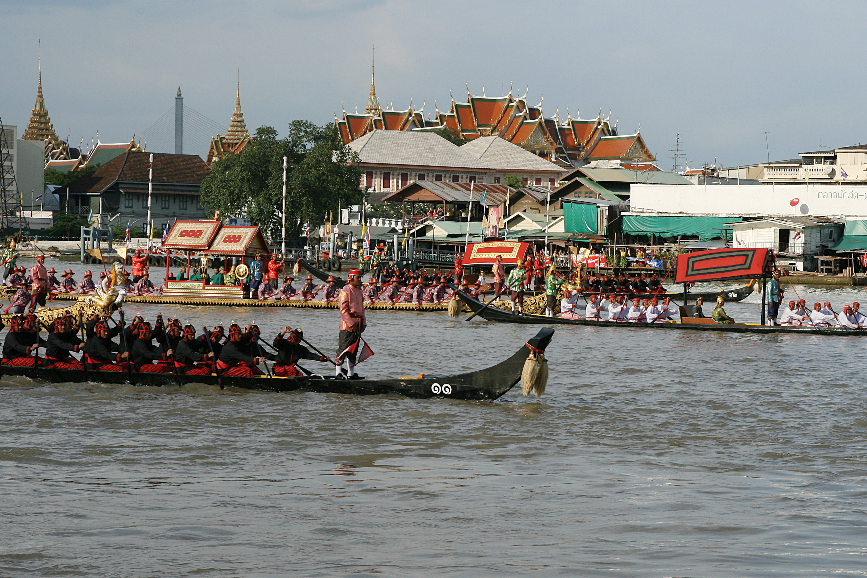 Escort barges in dress rehearsal on 29 October 2007 for 5 November 2007 Royal Barge Procession for Royal Kathin Ceremony at Wat Arun. From front to back: Dang barge 11 (crew in black), Krabi Prap Mueang Man (crew in purple), Police barge 2 (crew in white), Krabi Ran Ron Rap (crew in purple), and Dang barge 12 (crew in black).